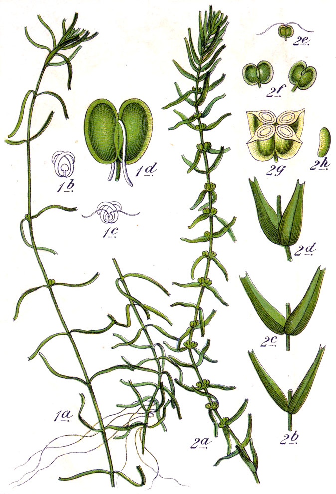 1. Callitriche brutia var. hamulata (Kütz. ex W.D.J.Koch) Lansdown, syn. Callitriche hamulata Kütz. ex W. D. J. Koch, 2. Callitriche hermaphroditica L., syn. Callitriche autumnalis L. Original Caption 1. Hacken-Wasserstern, Callitriche hamulata 2. Herbst-Wasserstern, Callitriche autumnalis